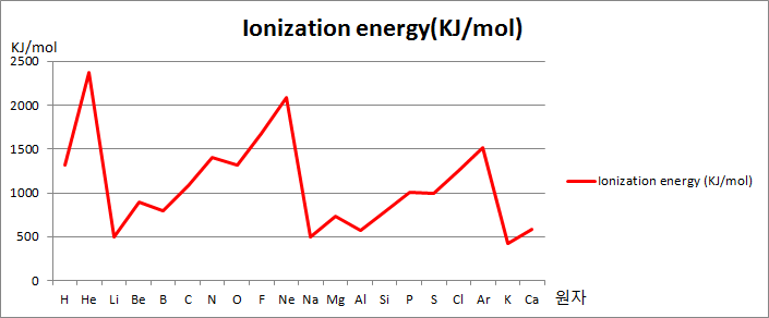 Ionization energy